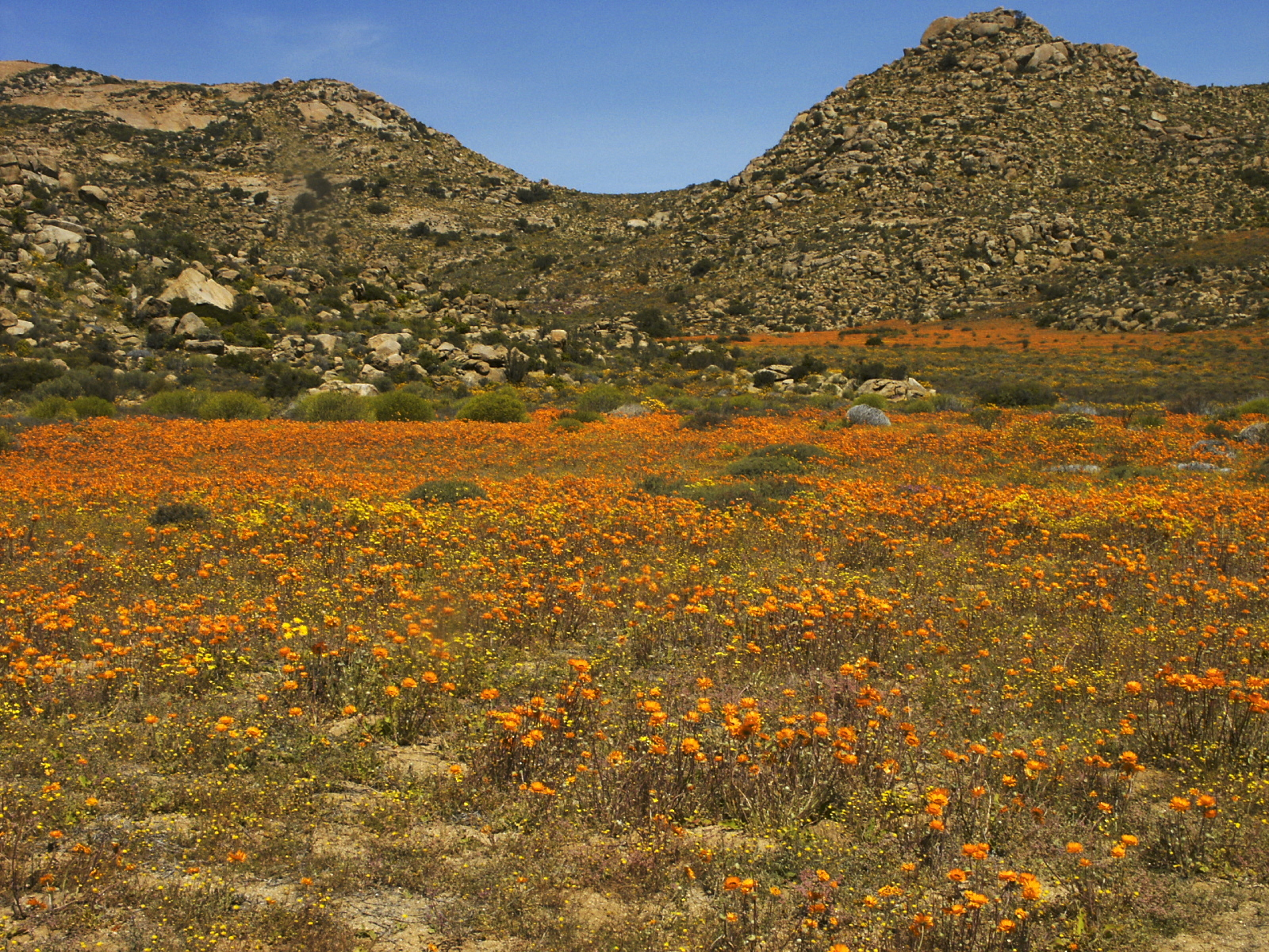 Daisys, Desert in the spring, flowering Desert, Namaqualand, Goegap Nature Reserve, Northern Cape, South Africa